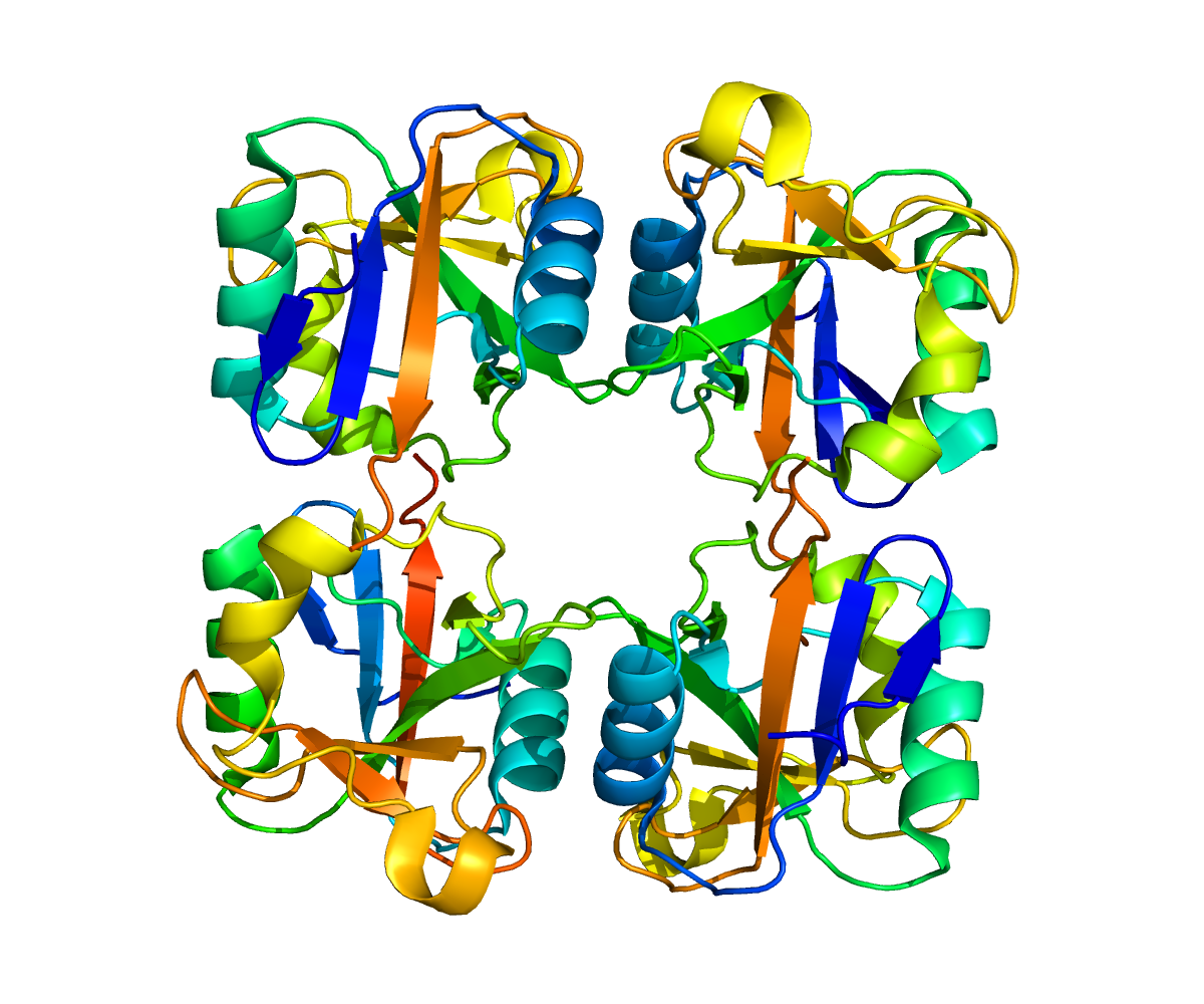 Structure of protein CD207.Based on PyMOL rendering of PDB 3C22.